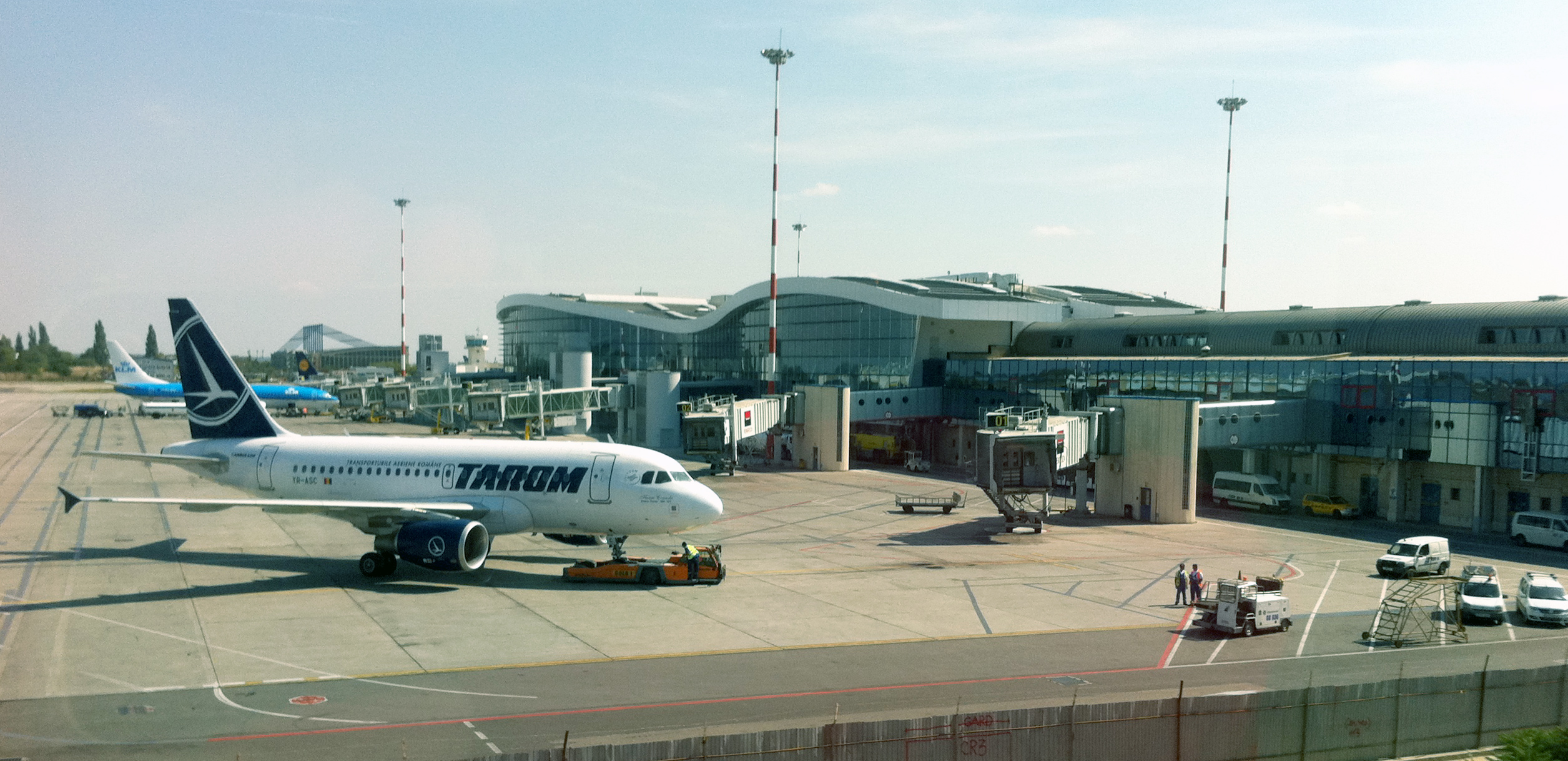 Terminal of Henri Coandă International Airport, Bucharets, Romania